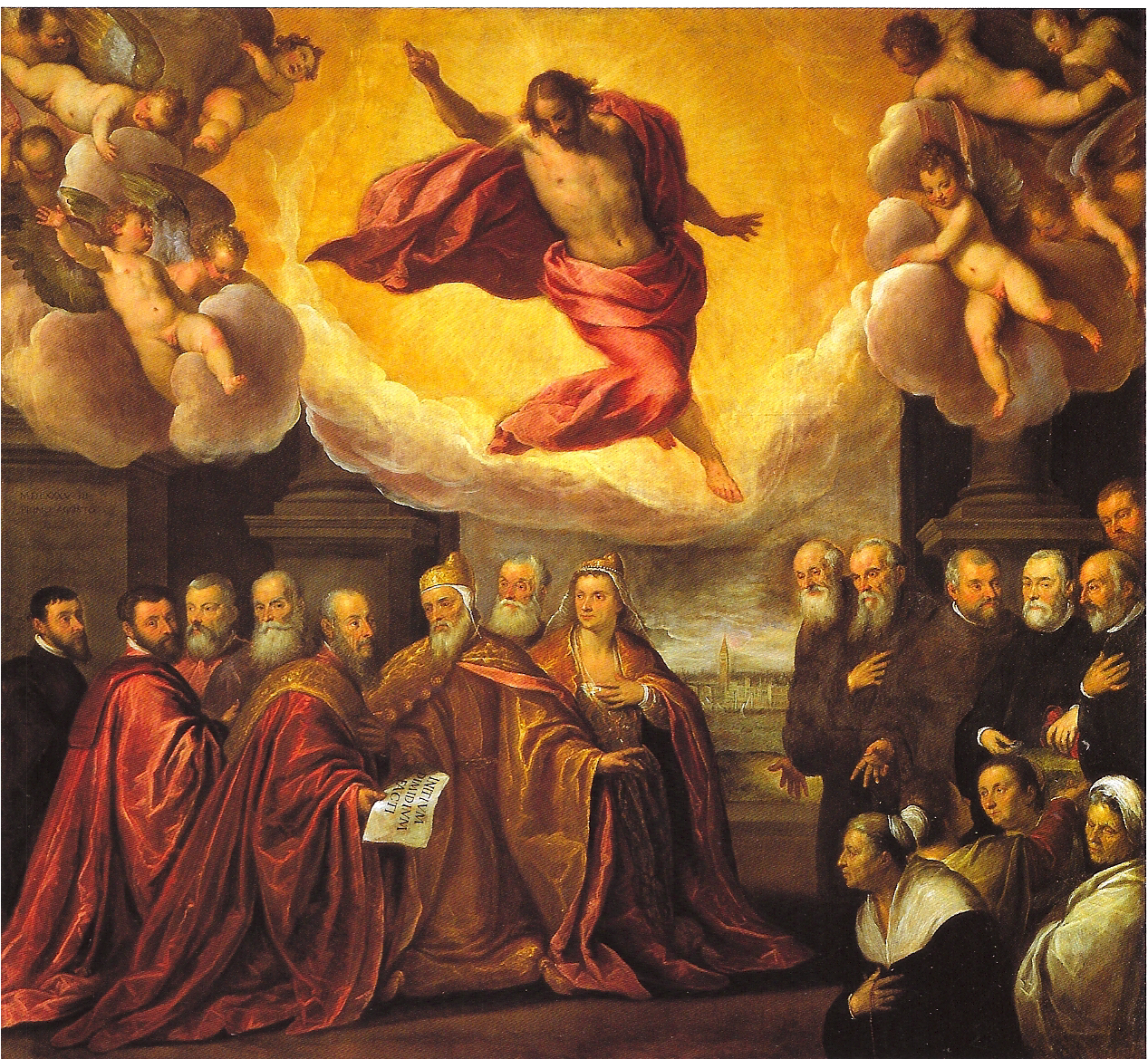 Doge Reniero Zeno and the endowment of the Crociferi.